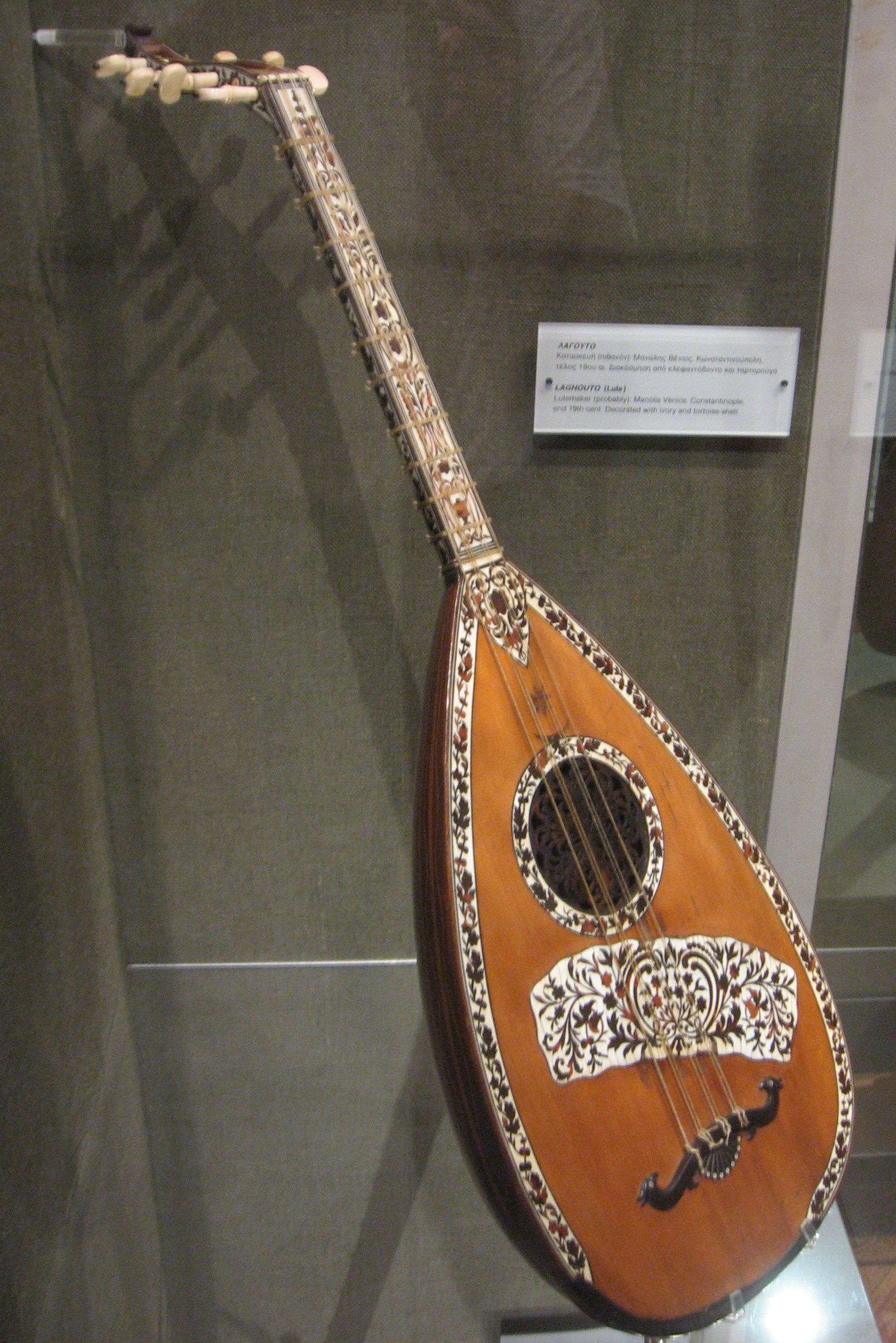 Lavta (politiko laouto), probably from lutemaker Manolis Venios, Constantinople, end 19th. ΛΑΓΟΥΤΟ ... LAGHOUTO (Lute) Lutemaker (probably): Manolis Venios, Constantinople, end 19th century. Decorated with ivory and tortoise-shell. References Middle East - Lavta. ATLAS of Plucked Instruments. "The Lavta is an instrument that was popular in the early 20th century, particularly amongst Greeks and Armenians, with a famous player like Tanburi Cemil Bey. Then it was gradually replaced by the oud and around 1930 they were vanished. From the 1980’s there has been a revival of this instrument, and now you can find them again both in Turkey and in Greece.”, “The lavta is a kind of hybrid oud : the body looks much like a small (Turkish) oud (with a body made of many ribs), with a guitar-like neck. The bridge usually has mustache-like ends. The fingerboard is flush with the soundboard, which is often unvarnished, and has a carved and inlayed rosette. Notice the very peculiar fretting distances (with wound nylon frets), resembling the Turkish tanbur.”, “Playing the lavta is similar to an oud, with a long thin plectrum."